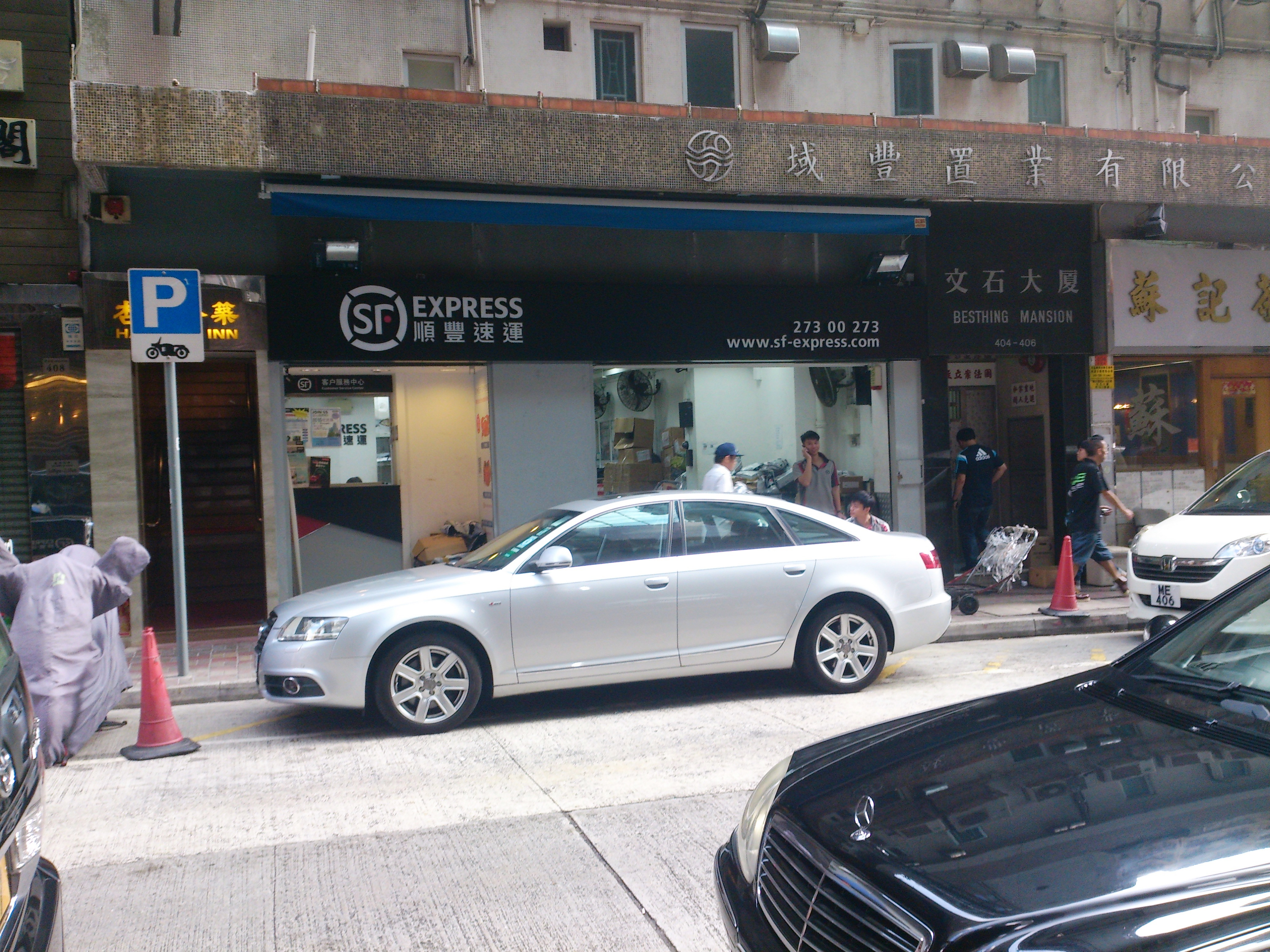 SF Express Service Center on Jaffe Road, Wan Chai